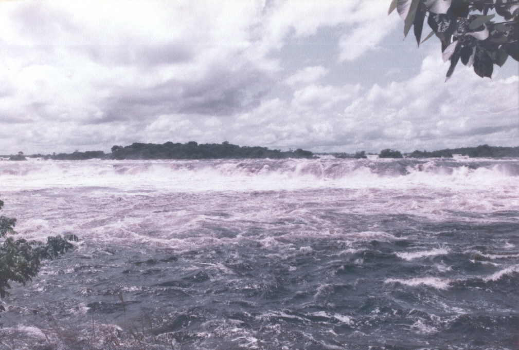 Cachamay Falls, in Puerto Ordaz, Venezuela, in february 1979. The falls where about 1,500m long. They have been 500m long since the construction of the Macagua II dam and hydroelectric power plant. The flowthrough is also much lower, since most of the water is derouted to the turbines (as seen in an 2009 photo).